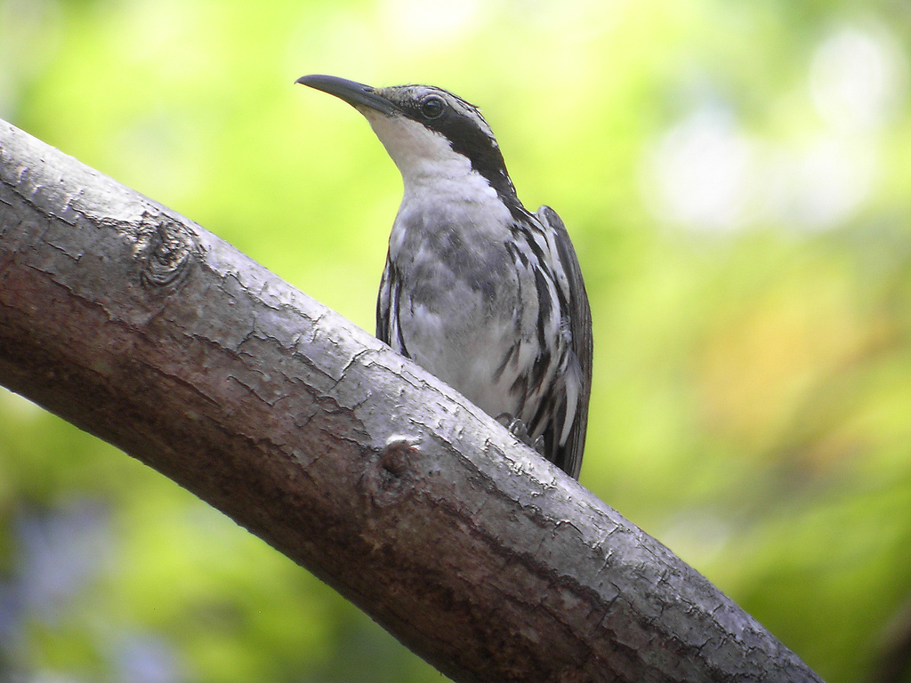 Stripe-headed Creeper, Rhabdornis mystacalis Subic Bay, Luzon